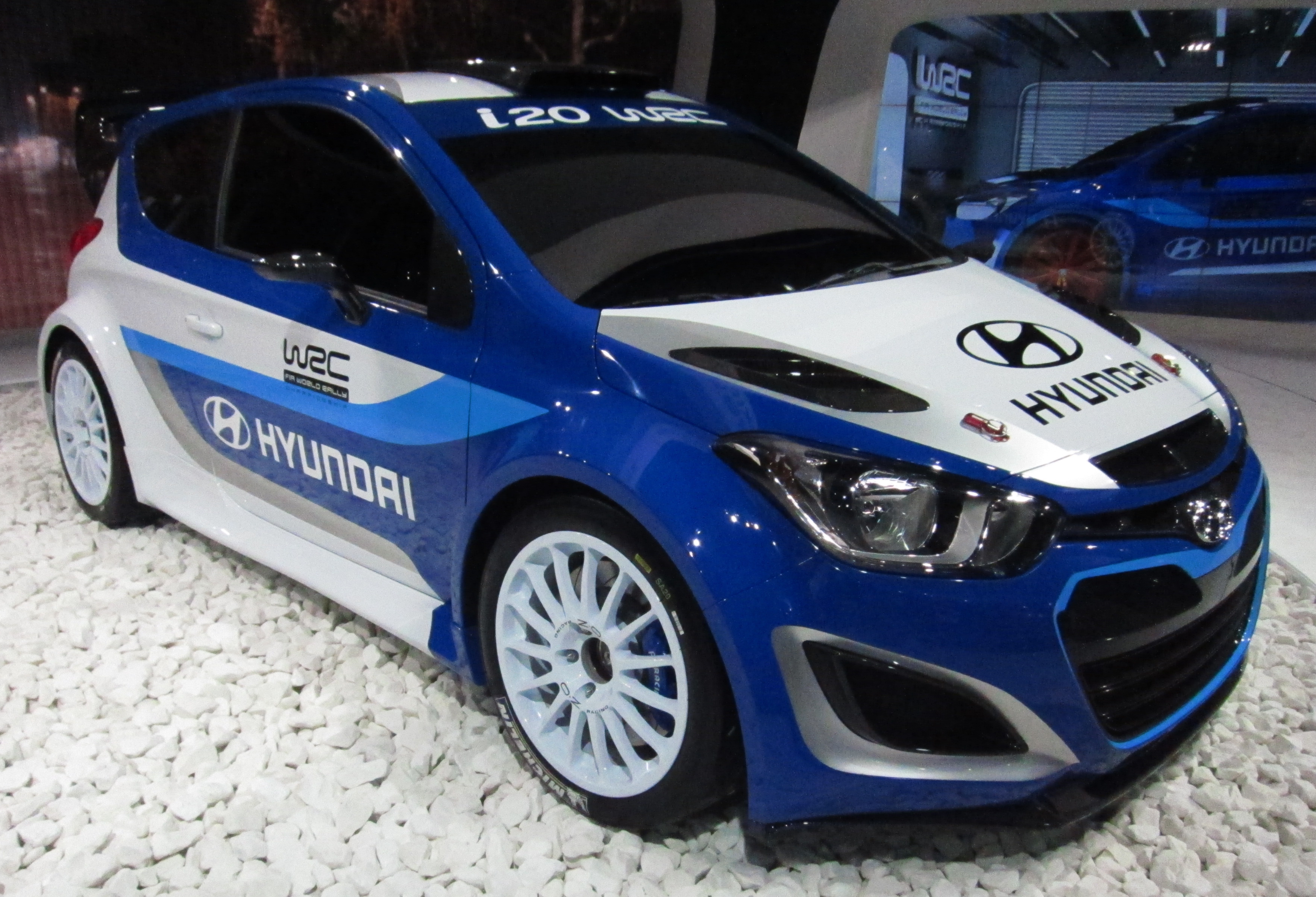 Hyundai i20 WRC at Mondial de l'Automobile Paris 2012